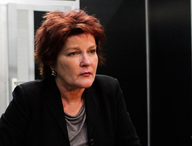 Destination Star Trek London: Kate Mulgrew